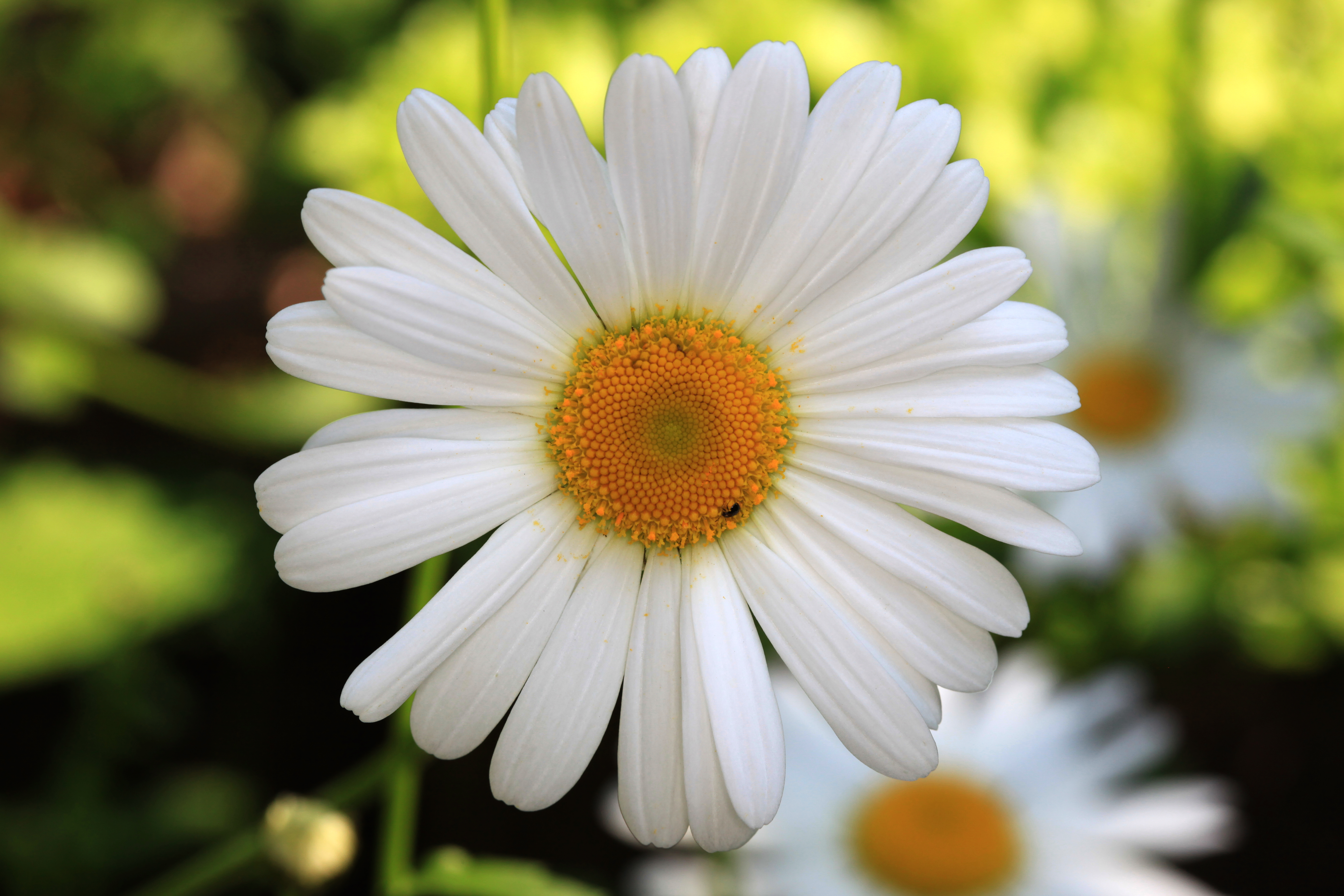 Marguerite (Leucanthemum vulgare) flower closeup.